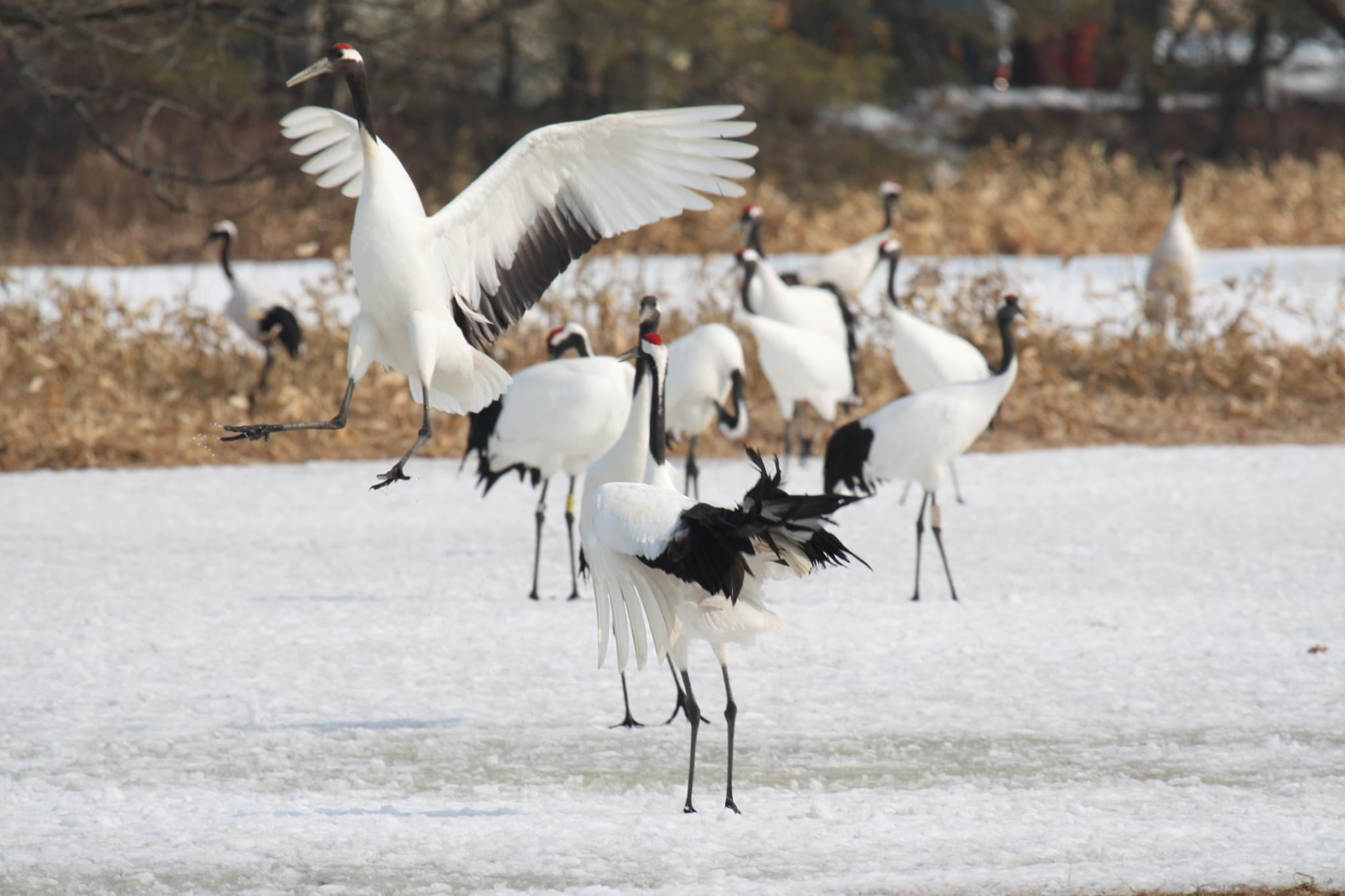 Several Red-crowned Cranes (also called the Japanese Crane or Manchurian Crane) in Hokkaido, Japan.